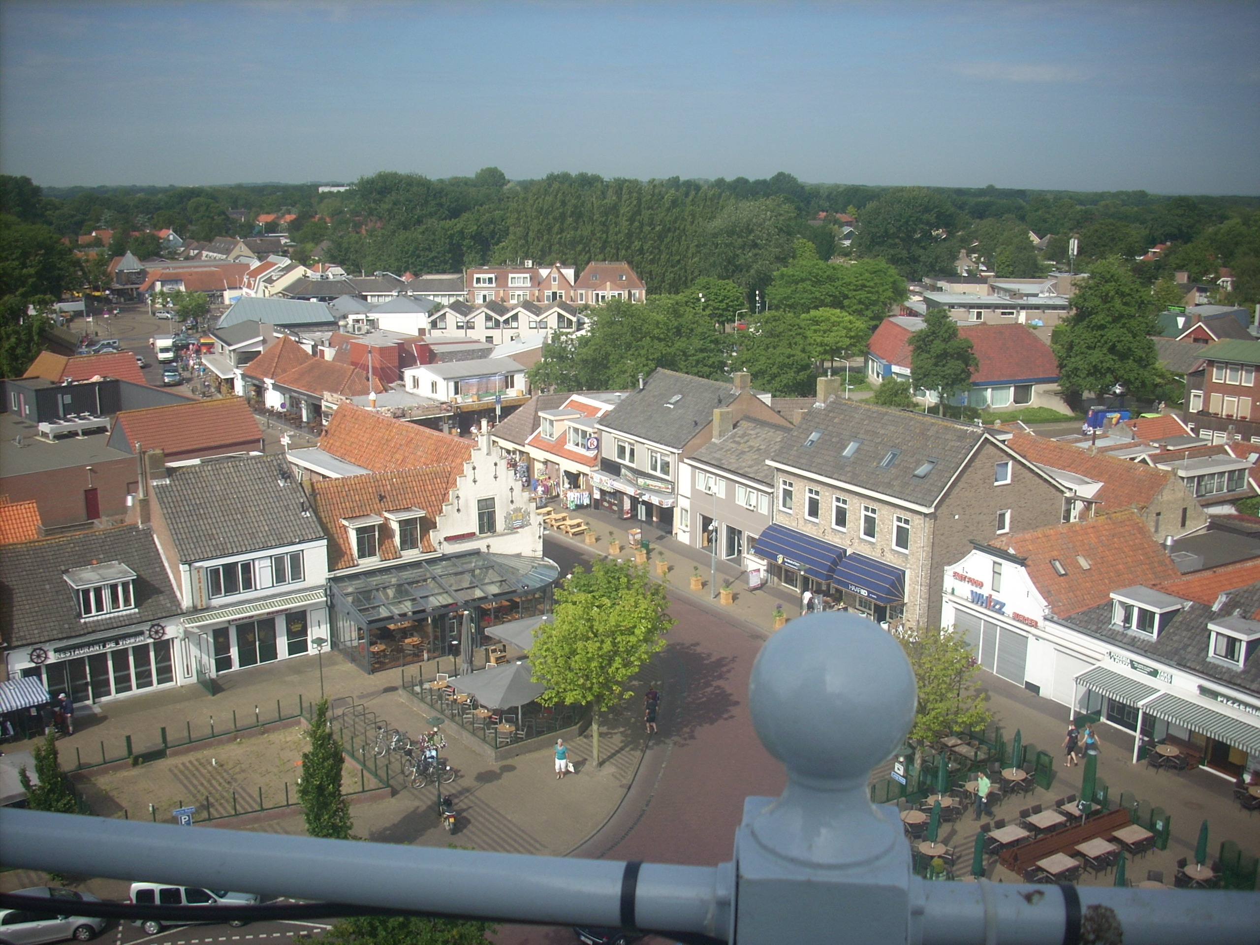 Renesse, view from church tower